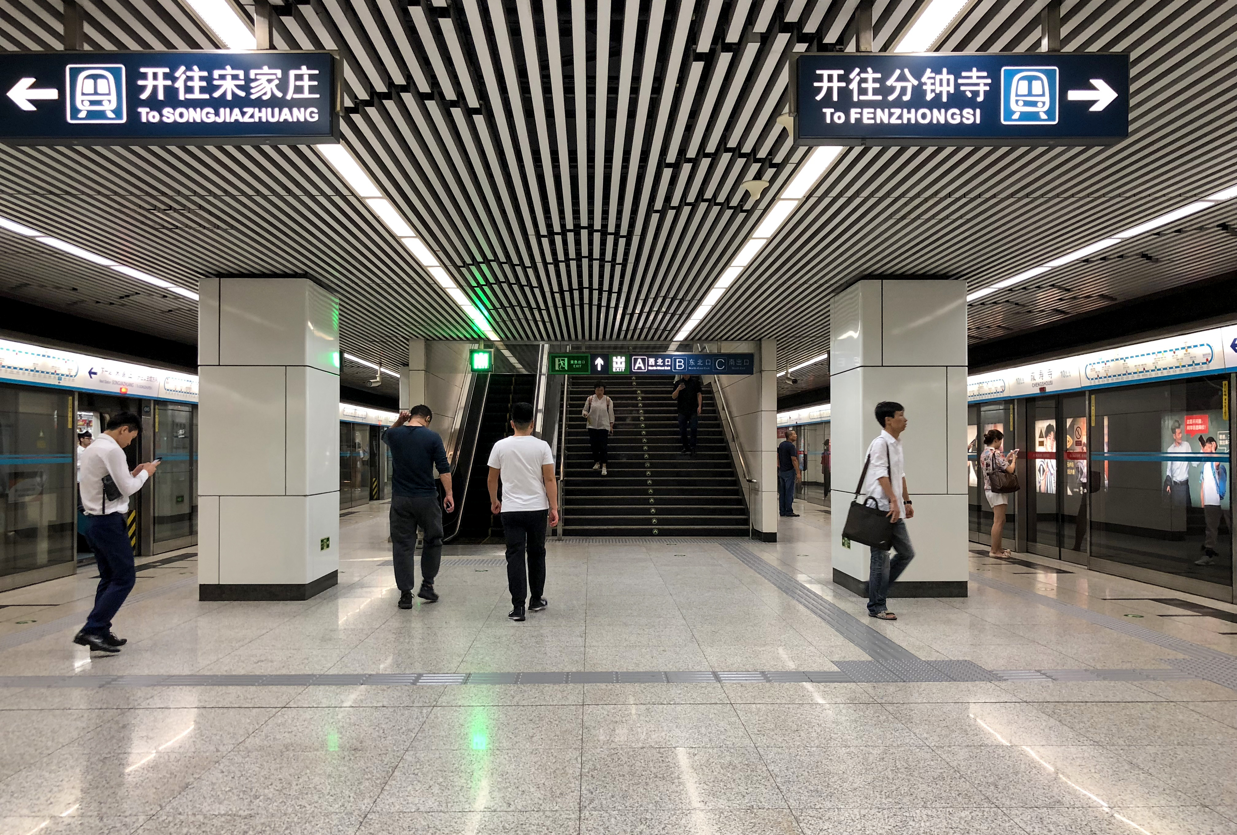 Happy birthday, Line 10!